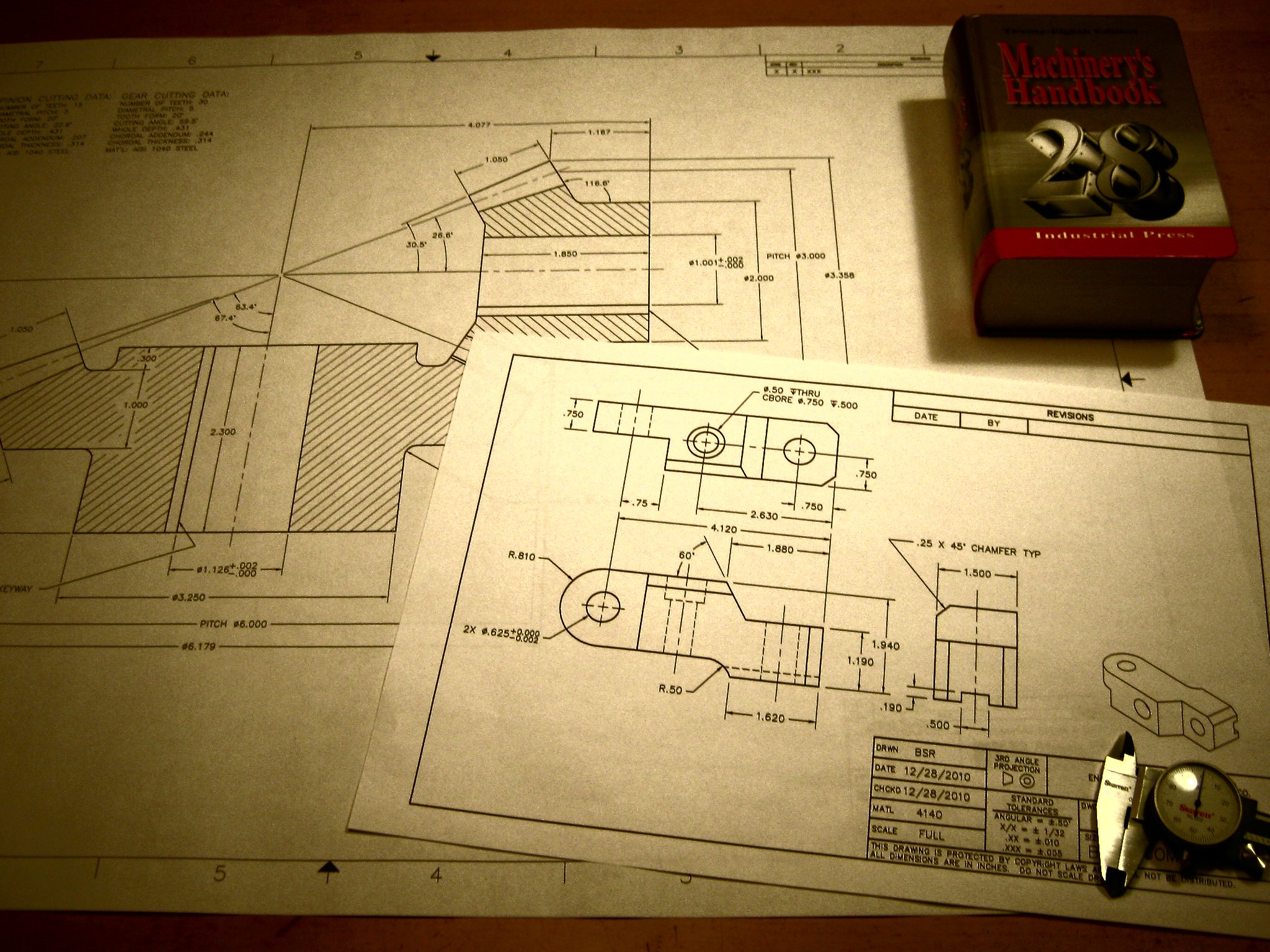 Engineering drawings, including a drawing of a bevel gearset. shown with a 6" dial caliper and a copy of the Machinery's Handbook